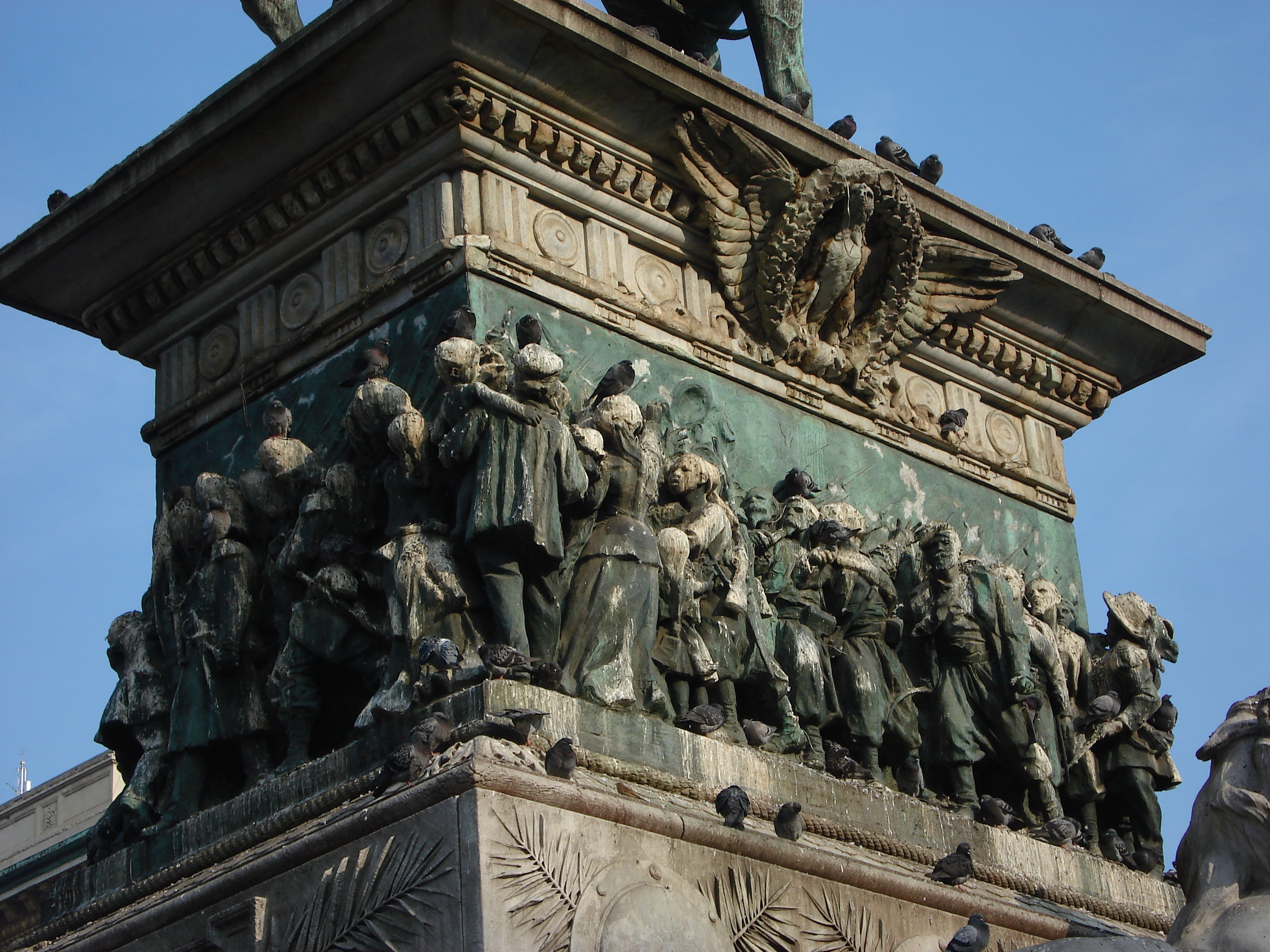 Detail from the monument to king Victor Emmanuel II in Duomo Square in Milan, Italy. It was modelled by Ercole Rosa and erected in 1896. Picture by Giovanni Dall'Orto, January 15 2007.